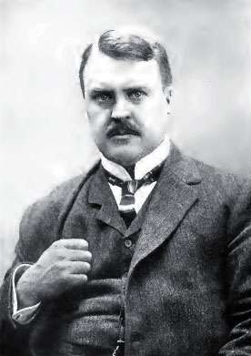 Johan Hjort